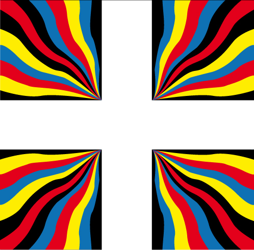 Colors of the Royal Swiss Guards in France until 1792